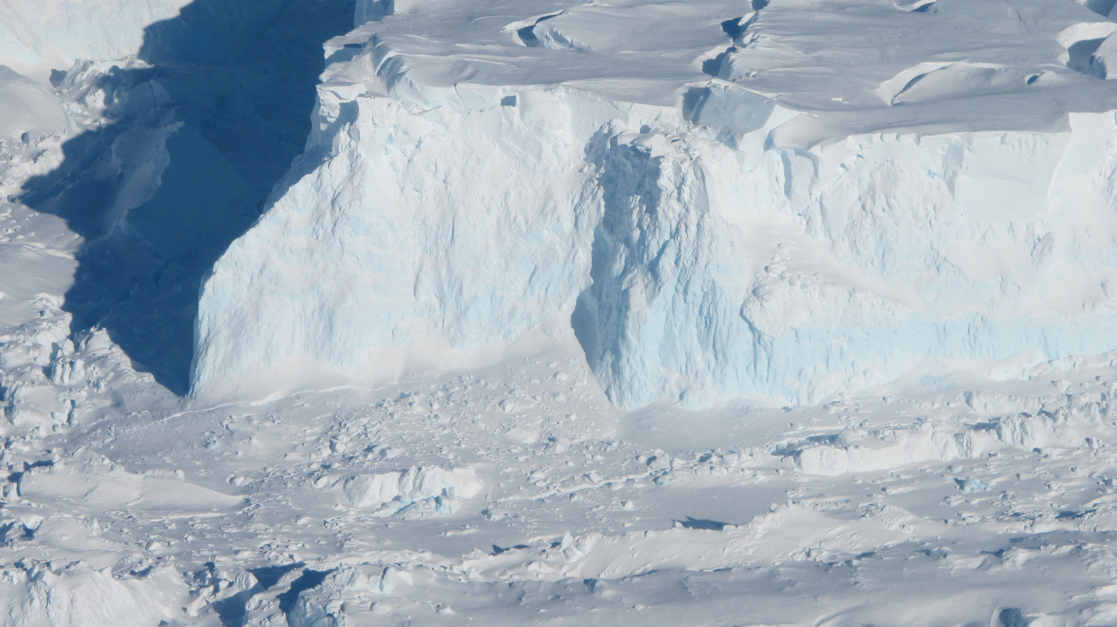 Close look at the Thwaites Ice Shelf edge as seen from the IceBridge DC-8 on Oct. 16, 2012. The blue areas of ice are denser, compressed ice. Credit: NASA / James Yungel, more info A Block Of Thwaites NASA's Operation IceBridge is an airborne science mission to study Earth's polar ice. For more information about IceBridge, visit